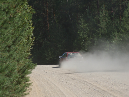 Car driving a state second class road, Latvia